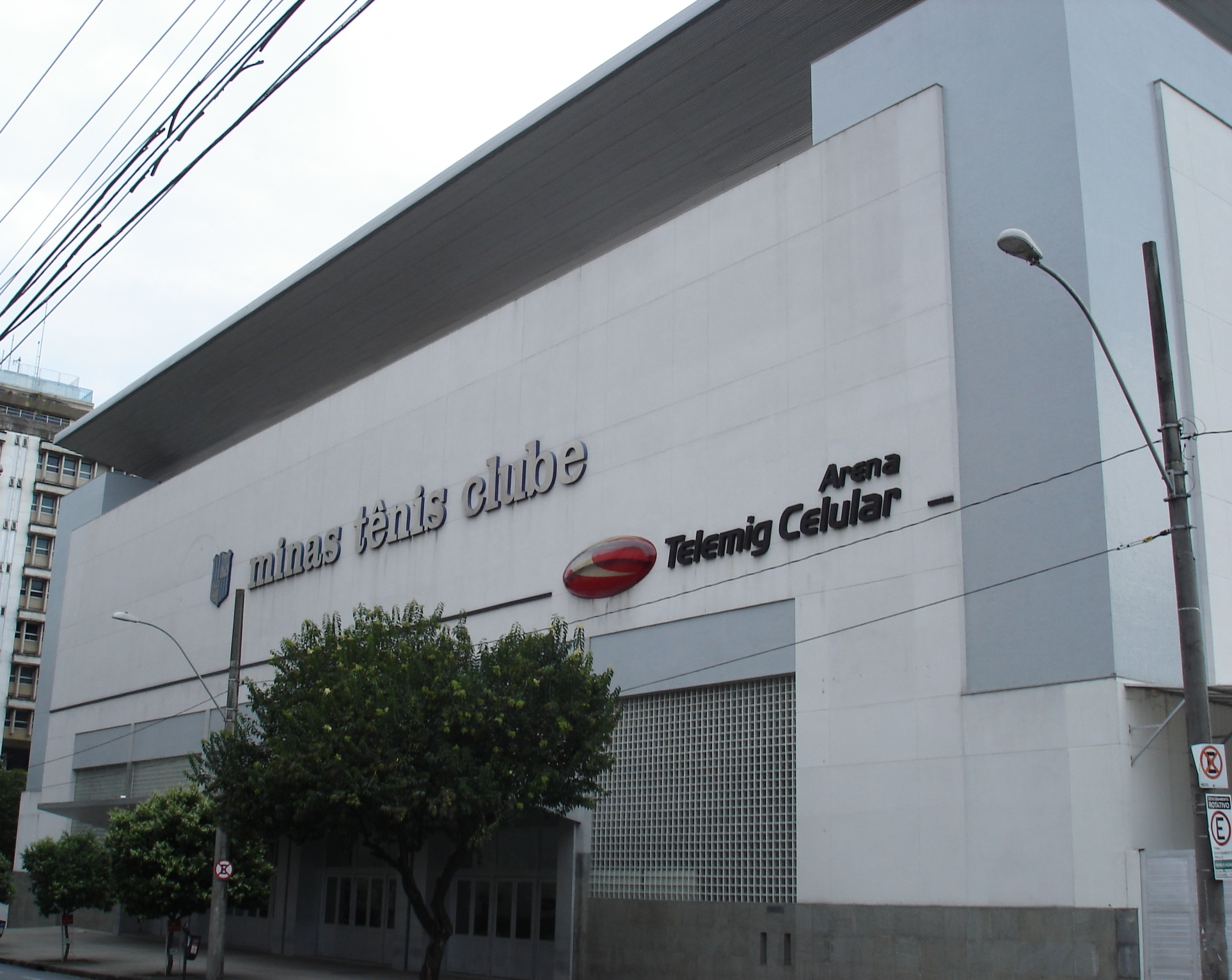 Main entrance of Telemig Celular Arena, the indoor stadium of Minas Tênis Clube